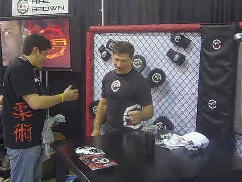 Mike Brown with fans - UFC 100 Fan Expo - Mandalay Bay Casino, Las Vegas